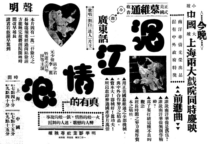 Singapore Release Advertisement of Siam Cantonese film "Rpmance in Meskong River"(湄江情浪)(1933) 中文（香港）: 暹羅粵語片《湄江情浪》(1933)在新加坡首映的廣告。